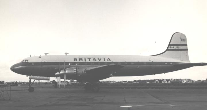 Britavia Handley Page Hermes IV at Blackbushe Airport